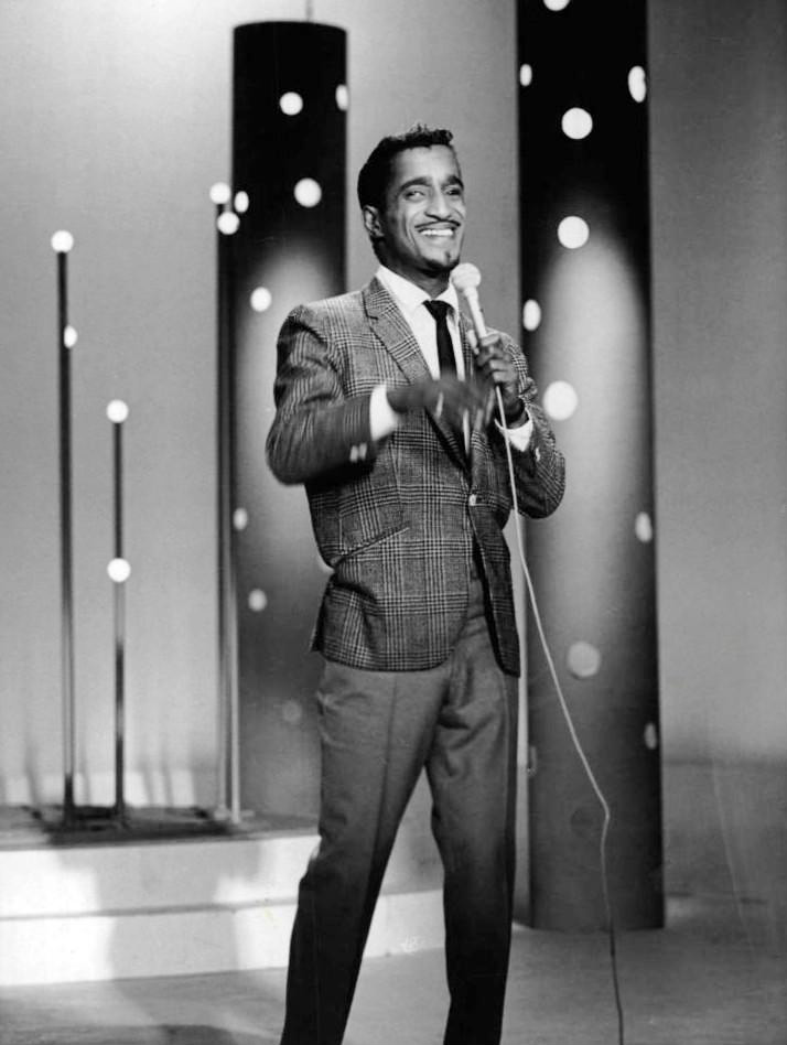 Photo of Sammy Davis, Jr. performing on the television program The Perry Como Show.